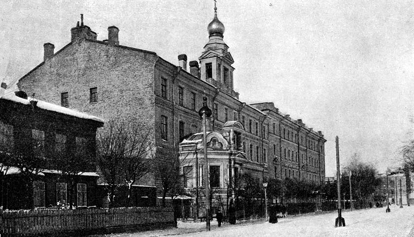 House of Diligence (Kronstadt)